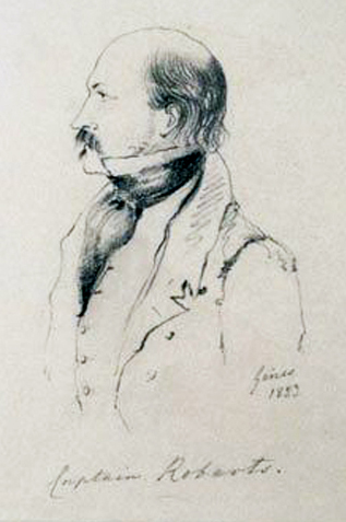 Sketch by Count Alfred D'Orsay, 1821 From British Archives